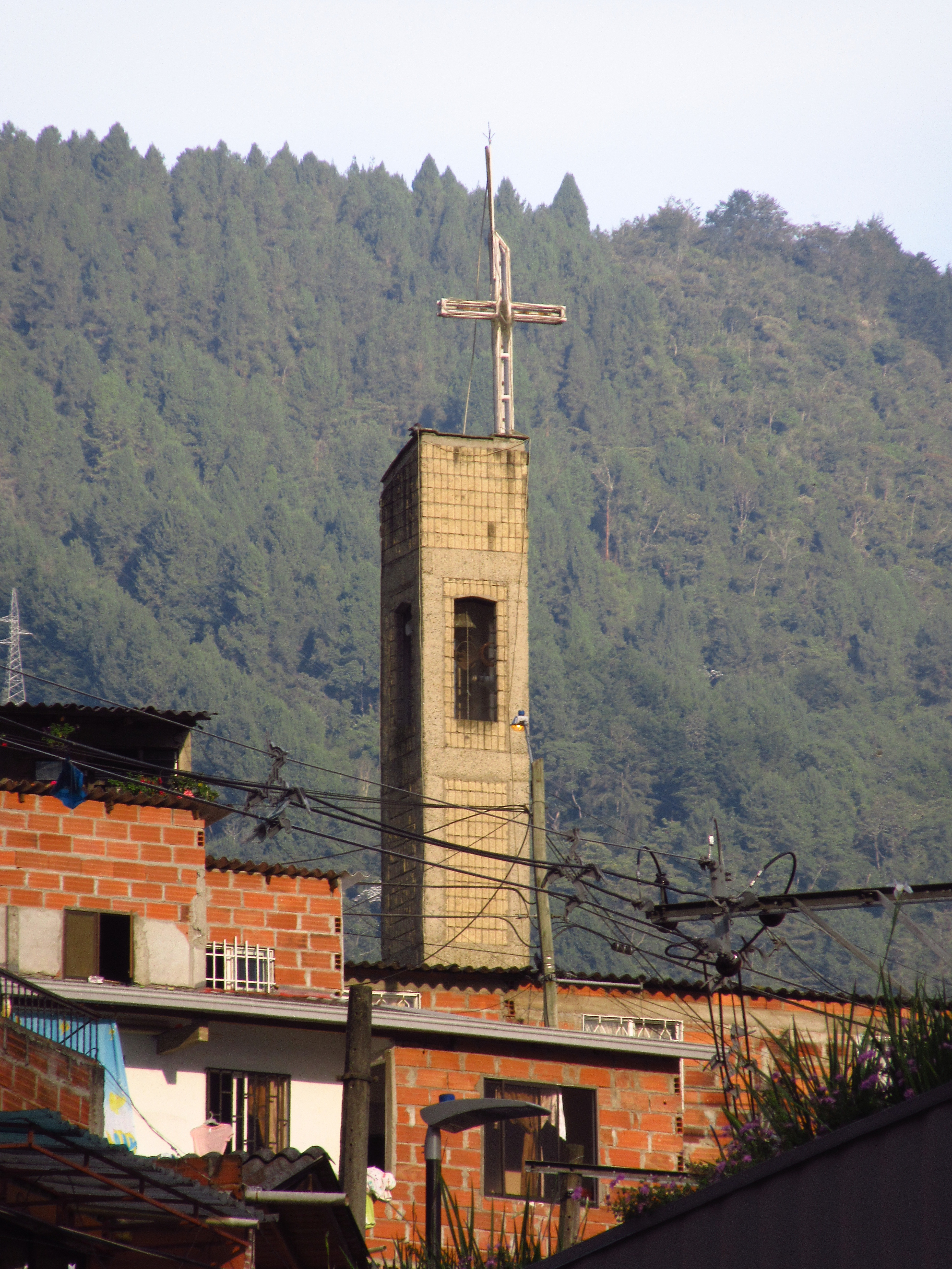 Iglesia de La Sierra de la Comuna 8. Comunas de Medellín.